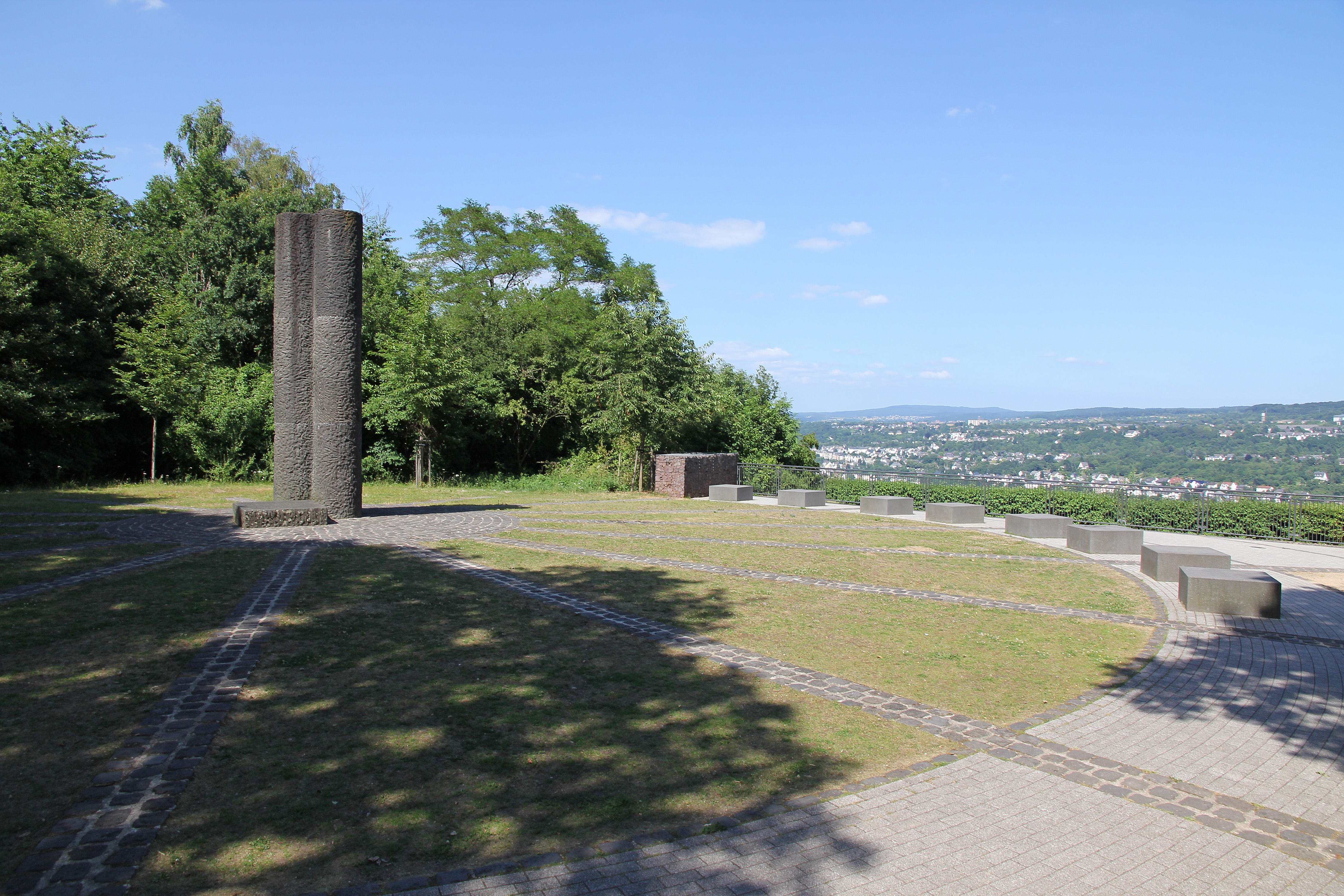 Rittersturz memorial in Koblenz